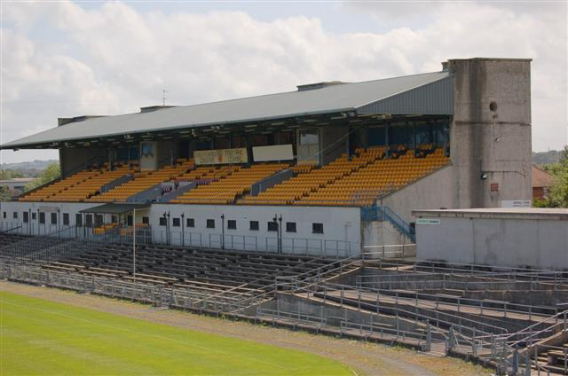 Roger Casement Park. The Stand 443977